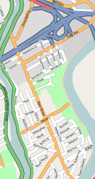 This map may be incomplete, and may contain errors. Don't rely solely on it for navigation.